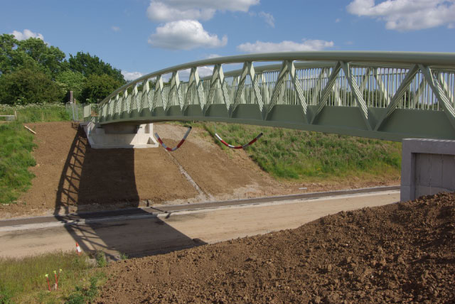 Rugby Western Relief Road